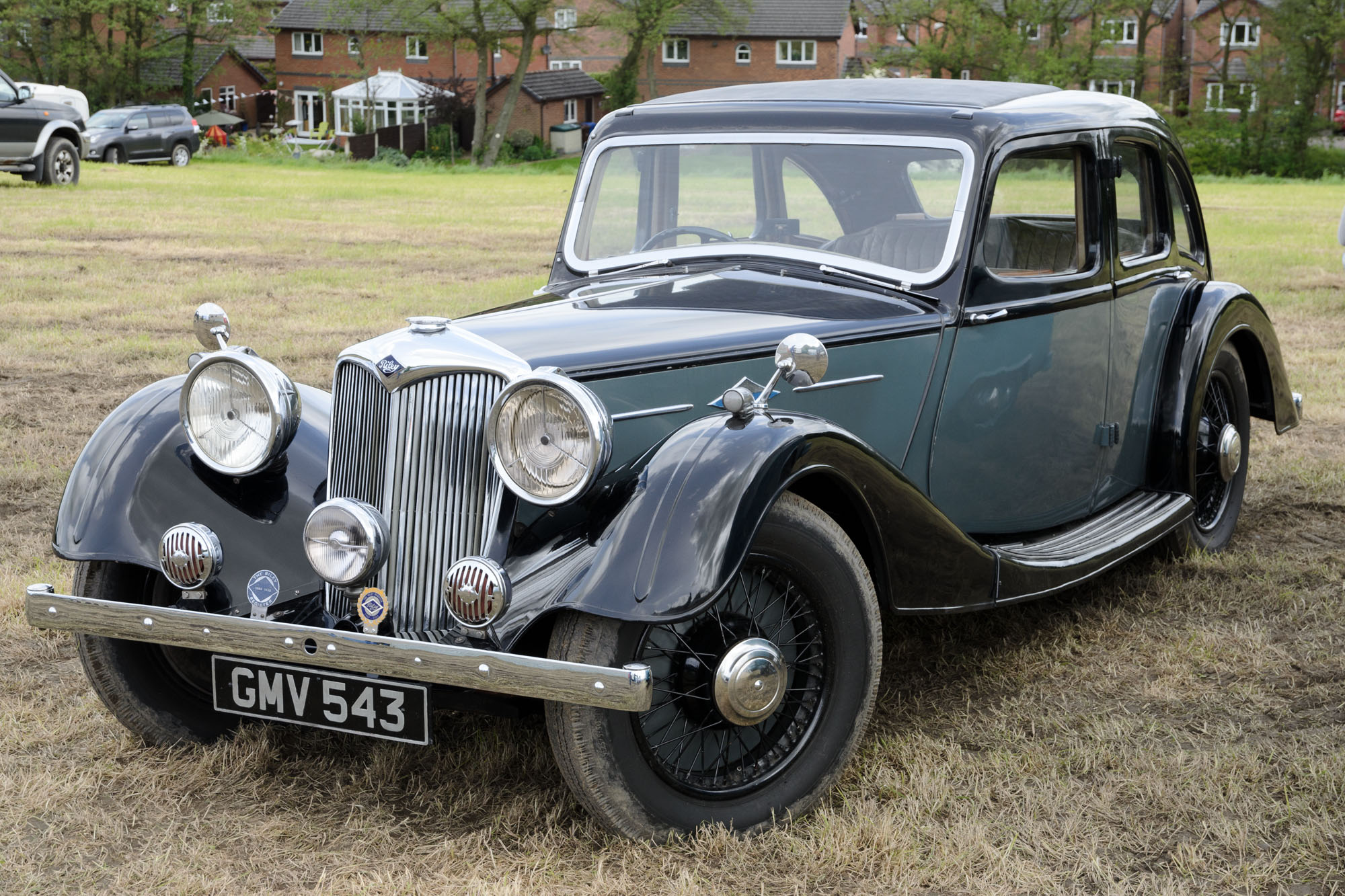 Riley 16/4 Big Four Kestrel 6-Light (1938) (DVLA) first registered 12 January 1938, 2443cc Heskin Hall Steam Fair 30/05/2015